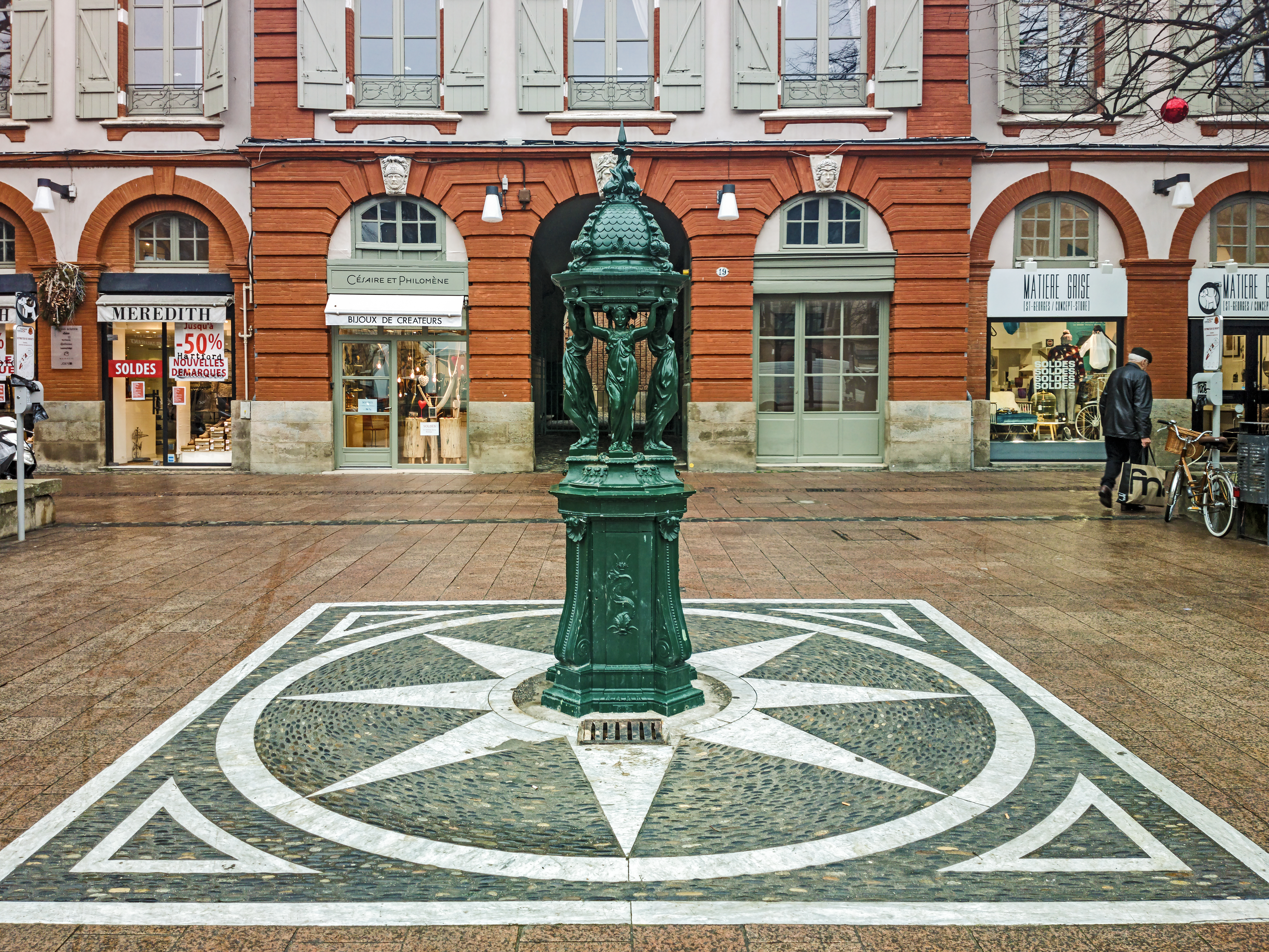 place Saint George in Toulouse - Wallace fontaine by Charles-Auguste Lebourg